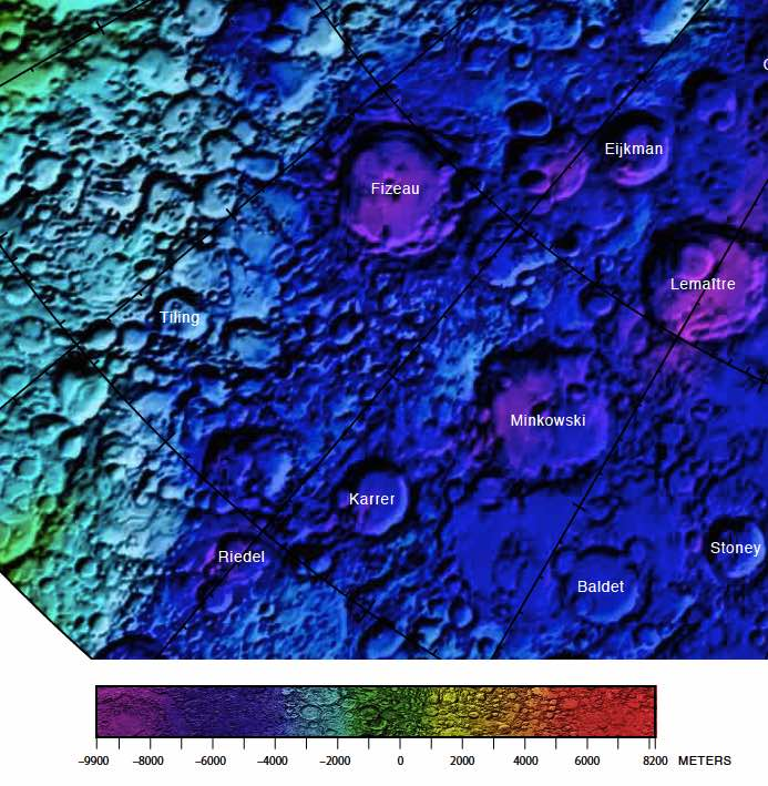 Part of the USGS south pole area lunar chart